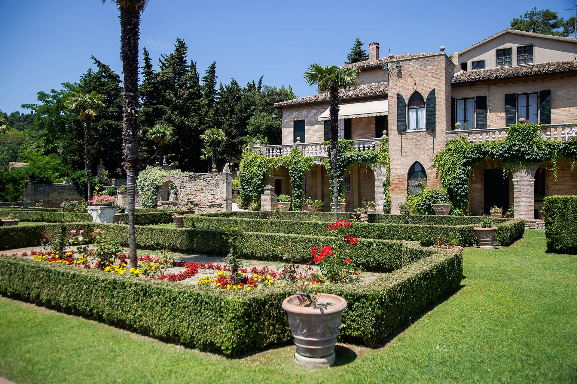 Villa Cattani Stuart and italian gardens